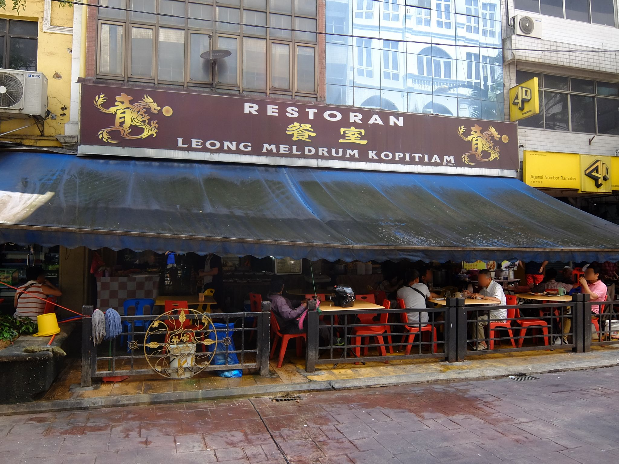 Leong Meldrum Kopitiam Restaurant, Johor Bahru, Johor, Malaysia